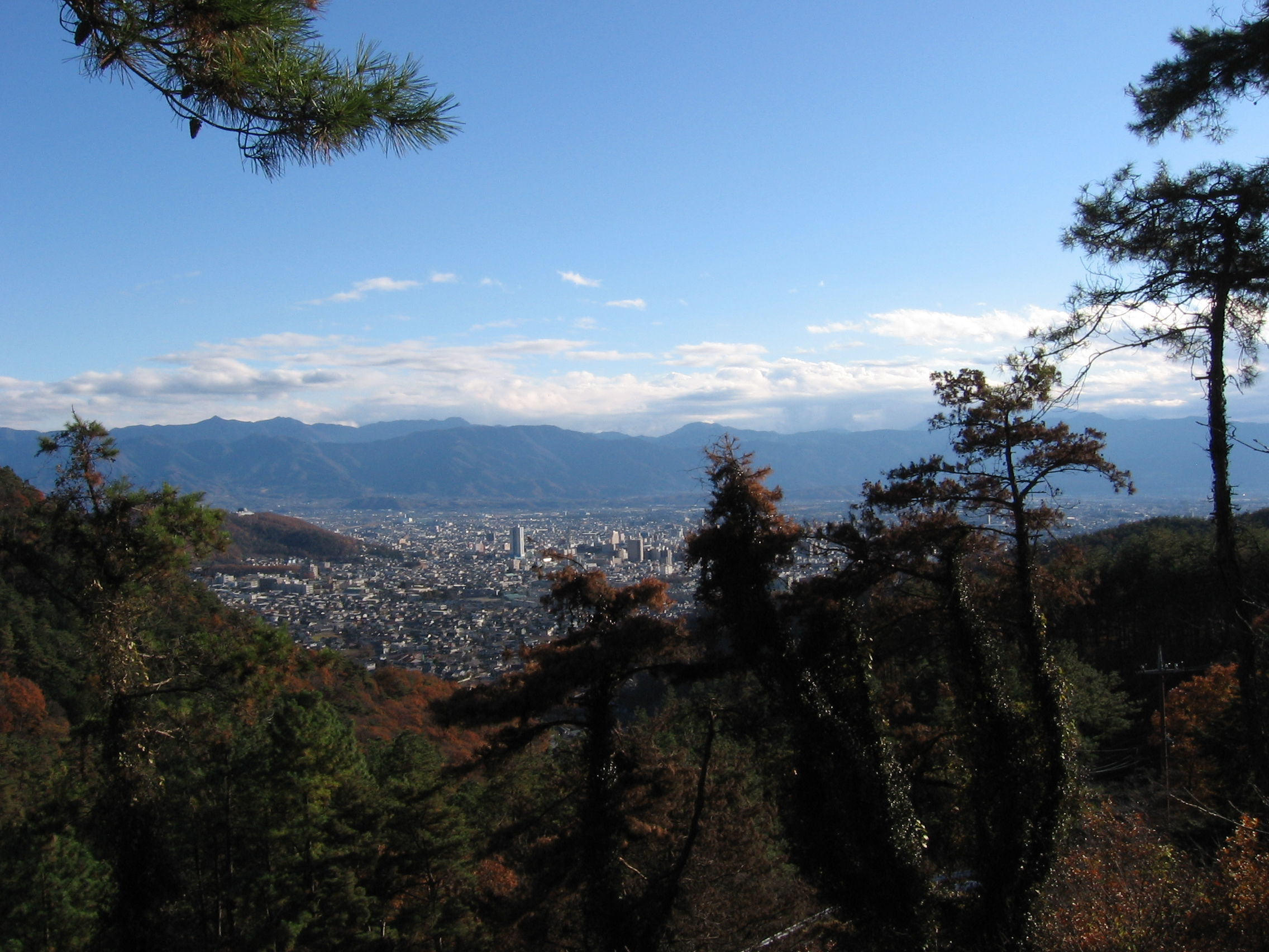 Town of Kōfu